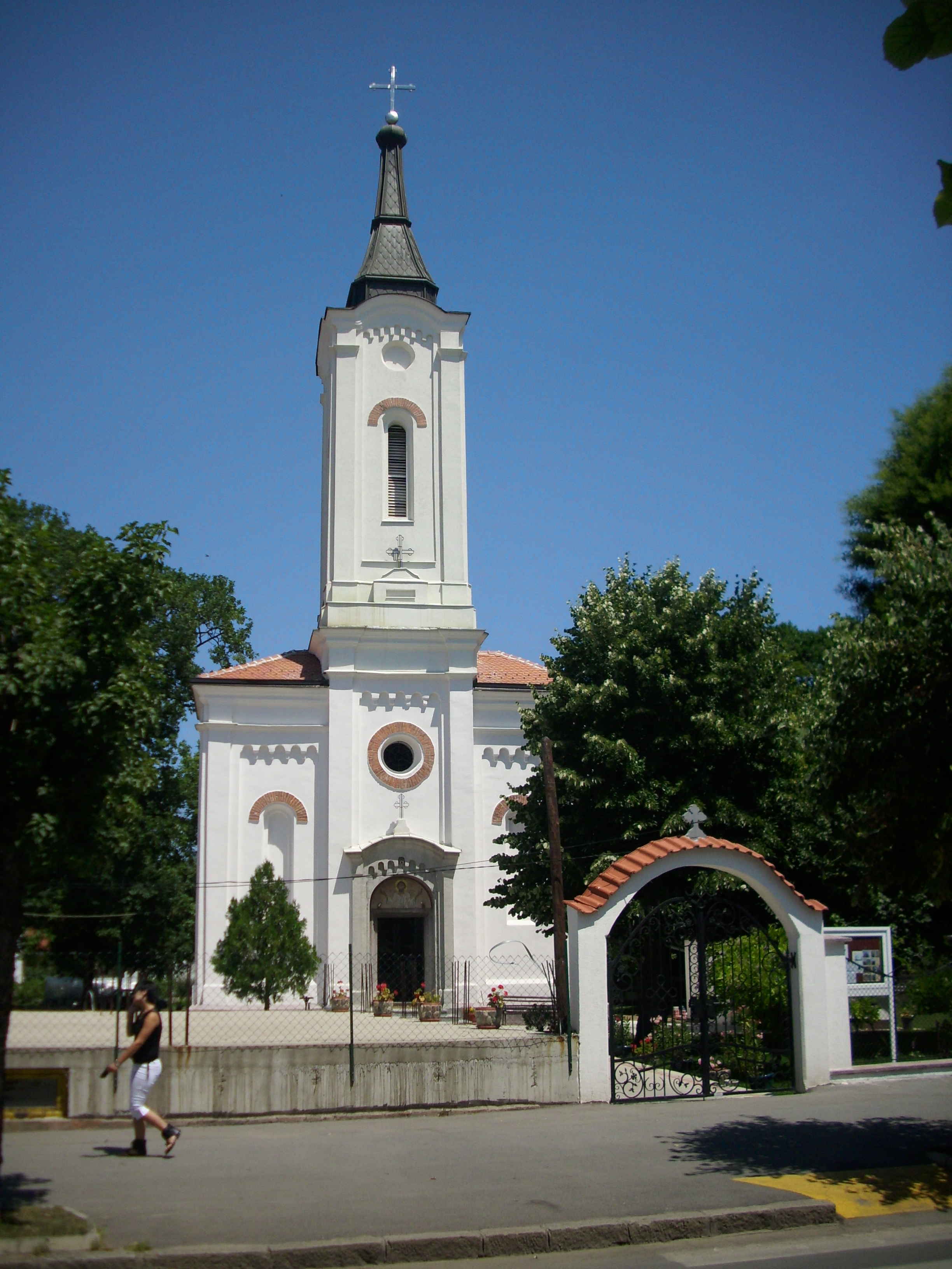 Churc "Vaznesenja Gospodnjeg" in Petrovac na Mlavi